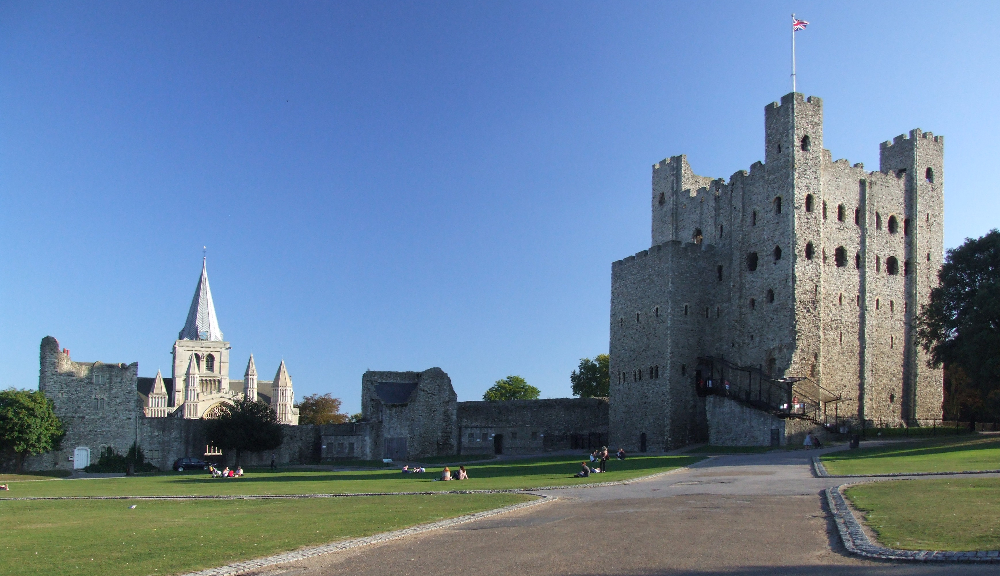 Rochester Castle (Perspective fixed and cropped.)